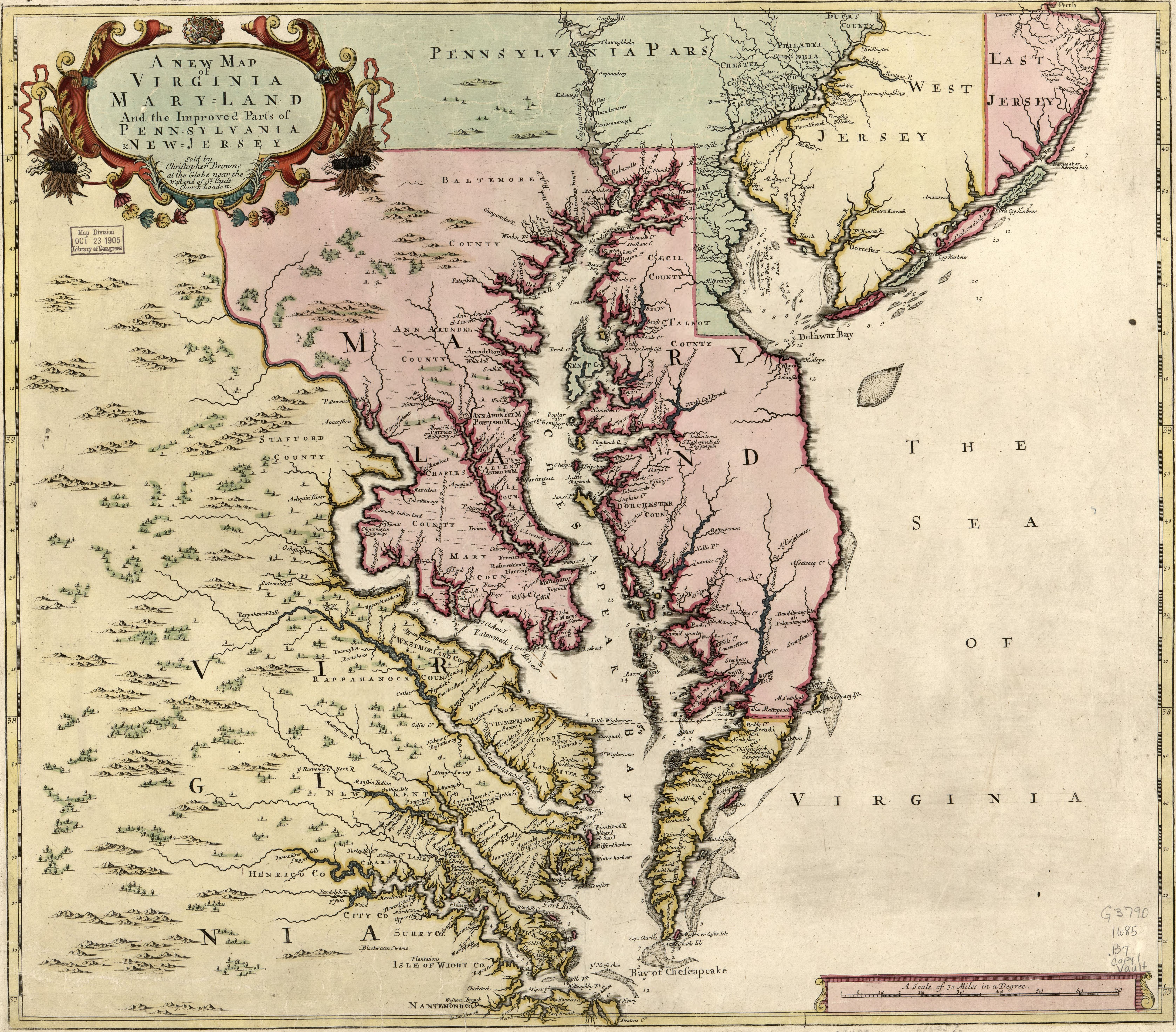 Relief shown pictorially. Depths shown by soundings. Date and attribution from On the Map, 1983 (Figure 24). First state of map published originally in 1685 by Christopher Browne with the imprint in the cartouche under the title. No longitude lines are given. Available also through the Library of Congress Web site as a raster image. LC copy annotated with pencil in bottom margin. Stamped and annotated in blue ink on verso: 24. LC copy imperfect: Loose binding along bottom margin.